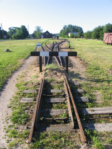 Closed narrow gauge railroad from Alūksne to Ape, Latvia